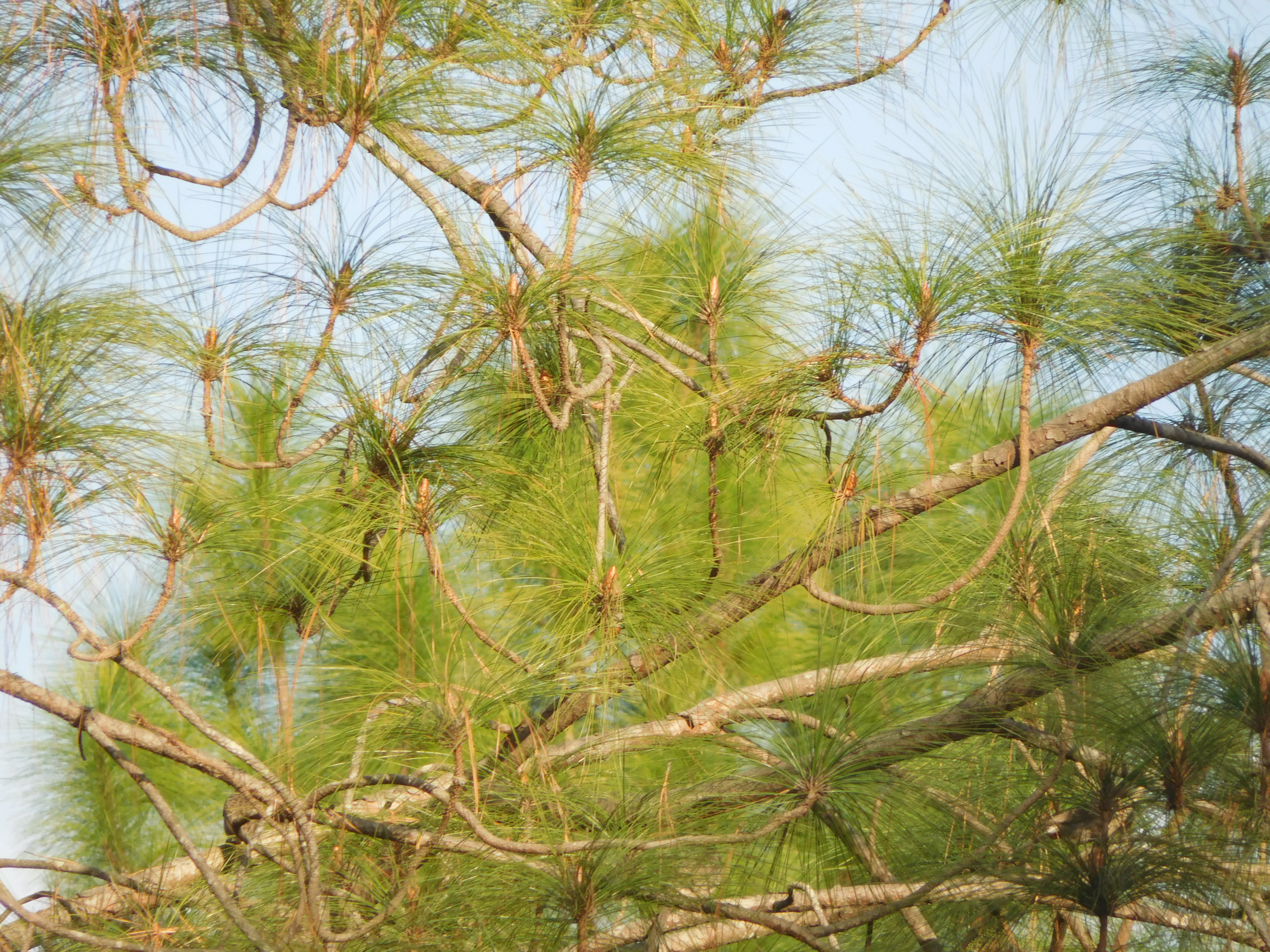 Branches of a Chir Pine Pinus roxburghii at Kakrebihar jungle, Surkhet, Nepal.